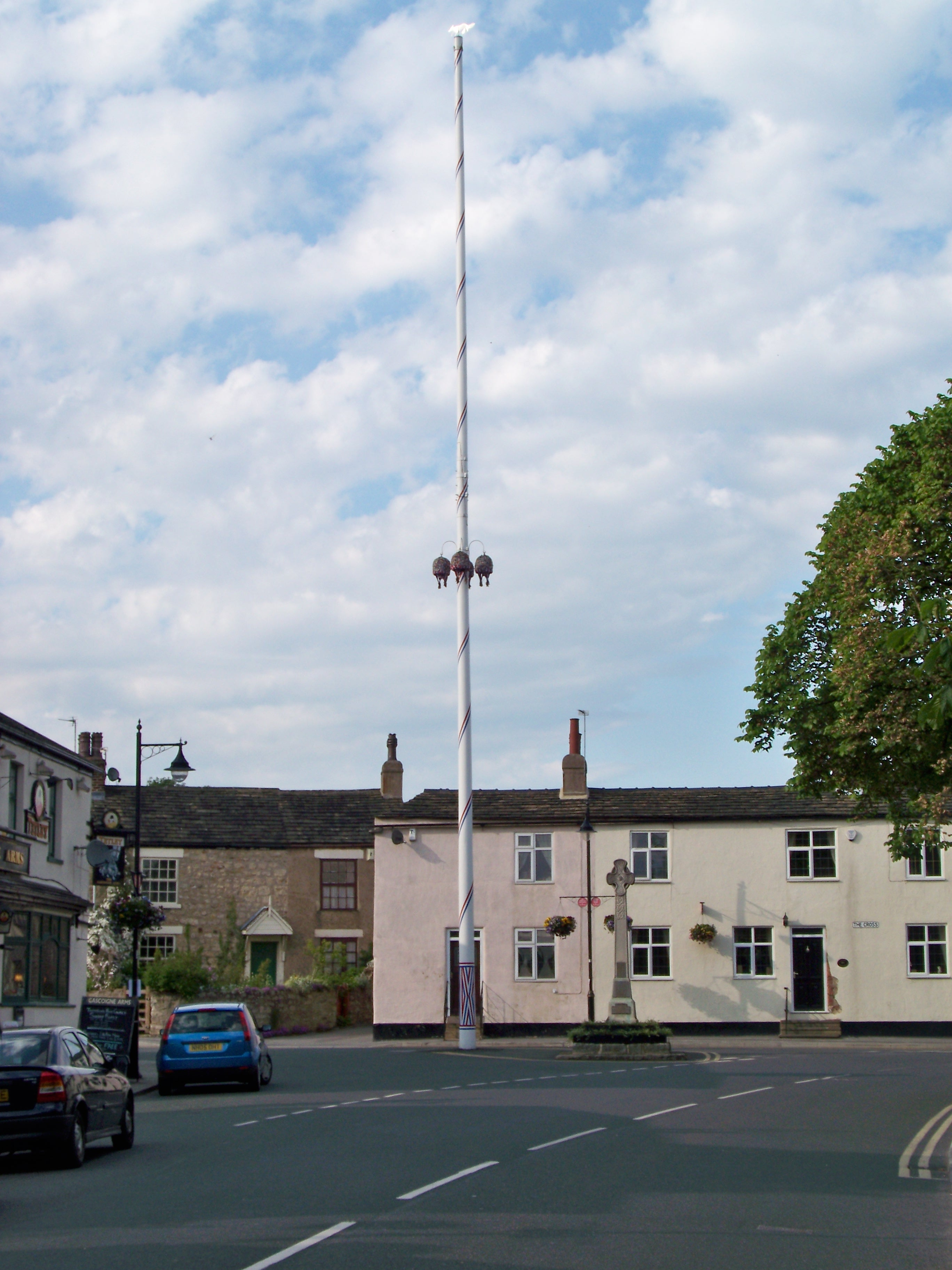 The Maypole in Barwick in Elmet, Leeds, West Yorkshire, UK. Taken on the 23rd May 2009.